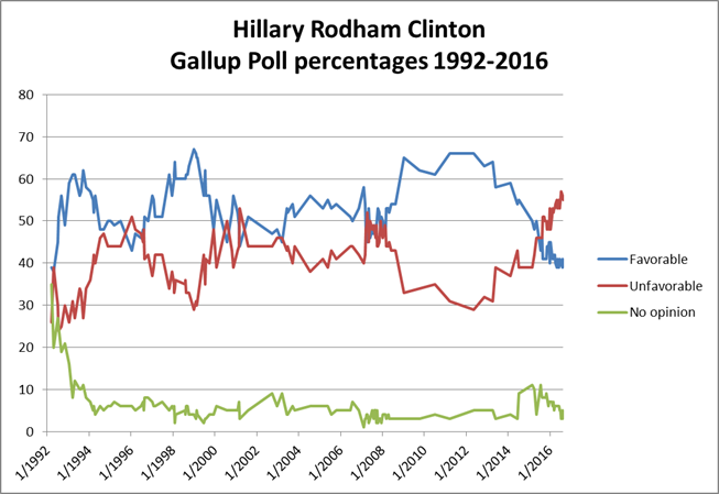 A chart of Hillary Rodham Clinton's Gallup Poll favorability ratings from 1992 through very early 2016, based upon the latest data at